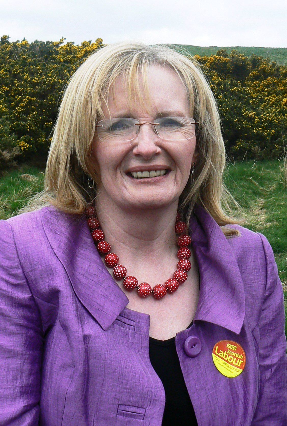 Margaret Curran MP portrait outdoors